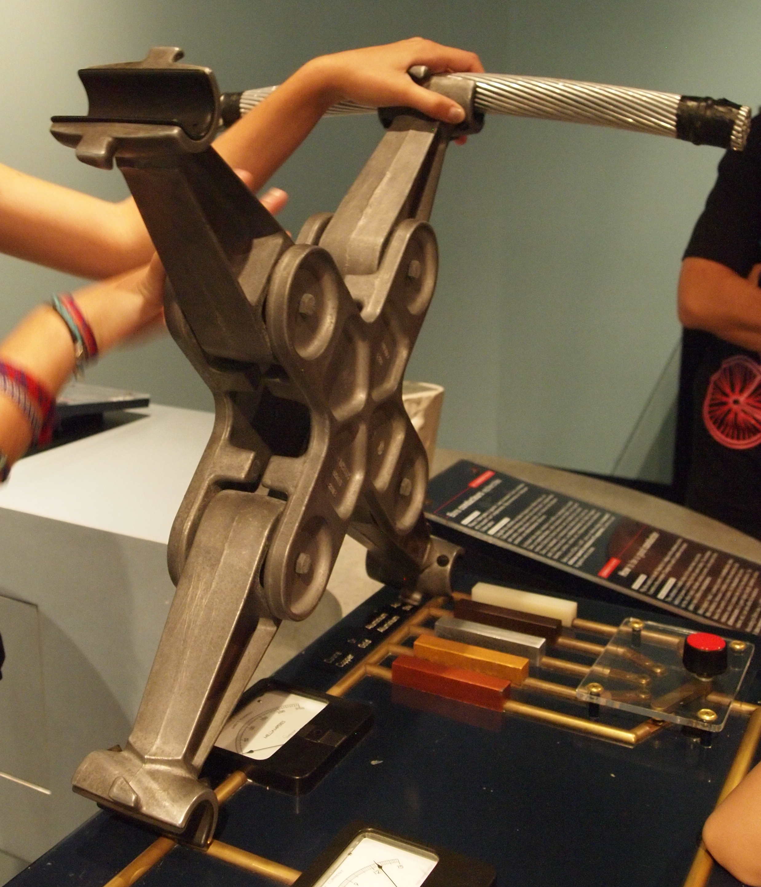 Spacer damper for four-conductor bundles used in high-voltage power transmission.